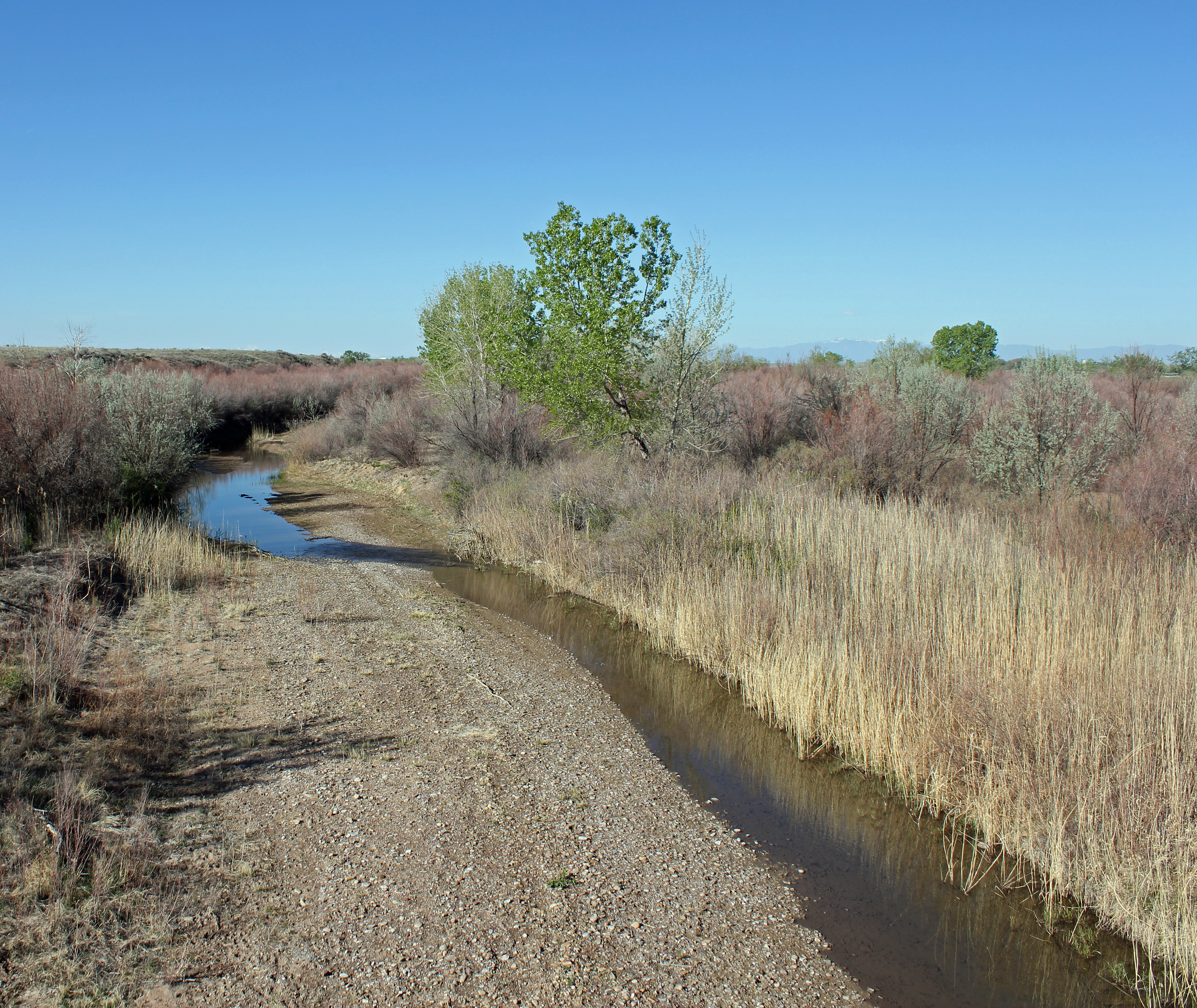 The Huerfano River. This view is taken from the Huerfano Bridge on U.S. Route 50 where it crosses the river in Pueblo County, Colorado. The view is to the south. Less than a mile upstream from this point is where the Huerfano River empties into the Arkansas River.